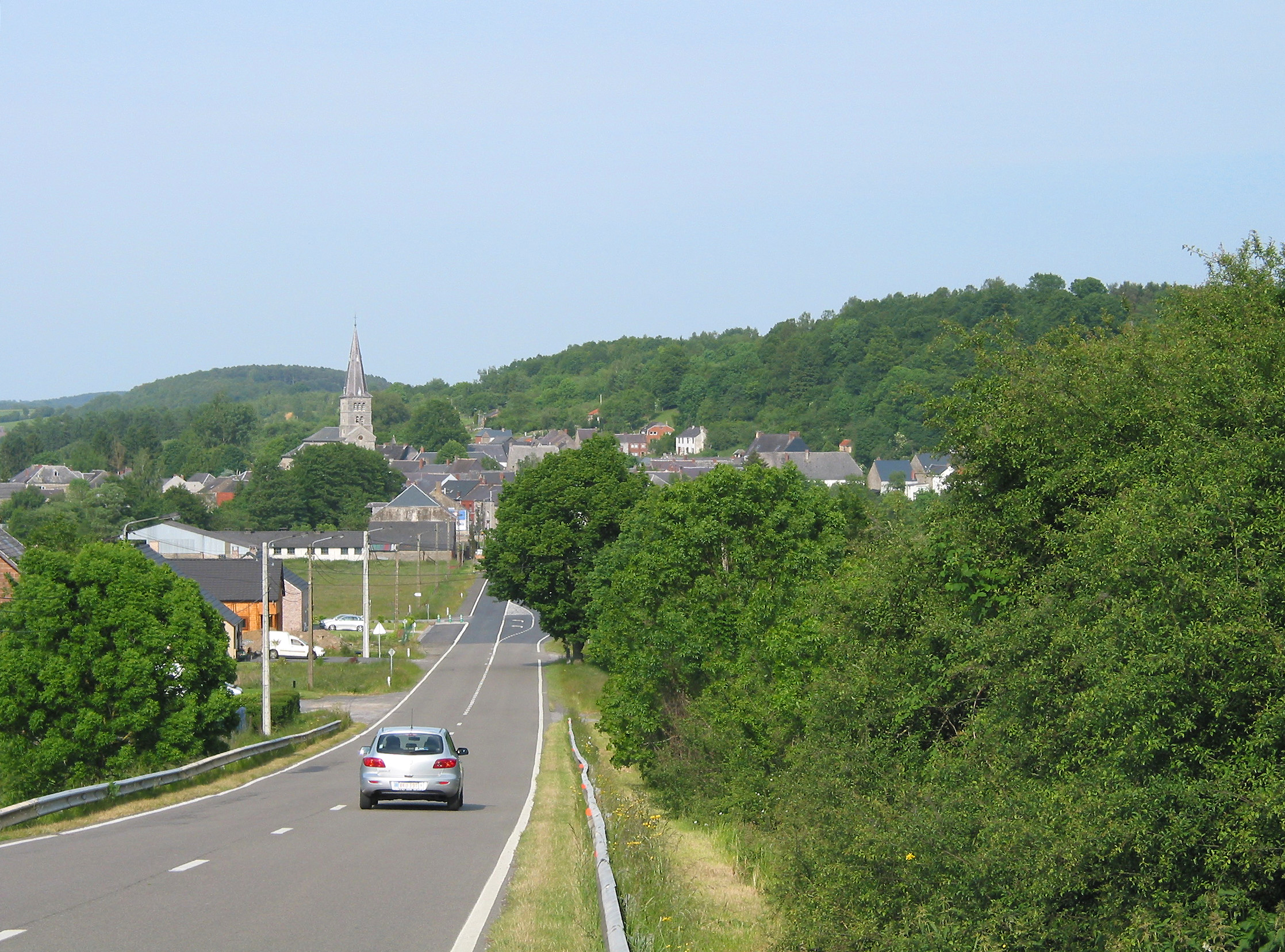 Petigny (Belgium), the General de Monge street.